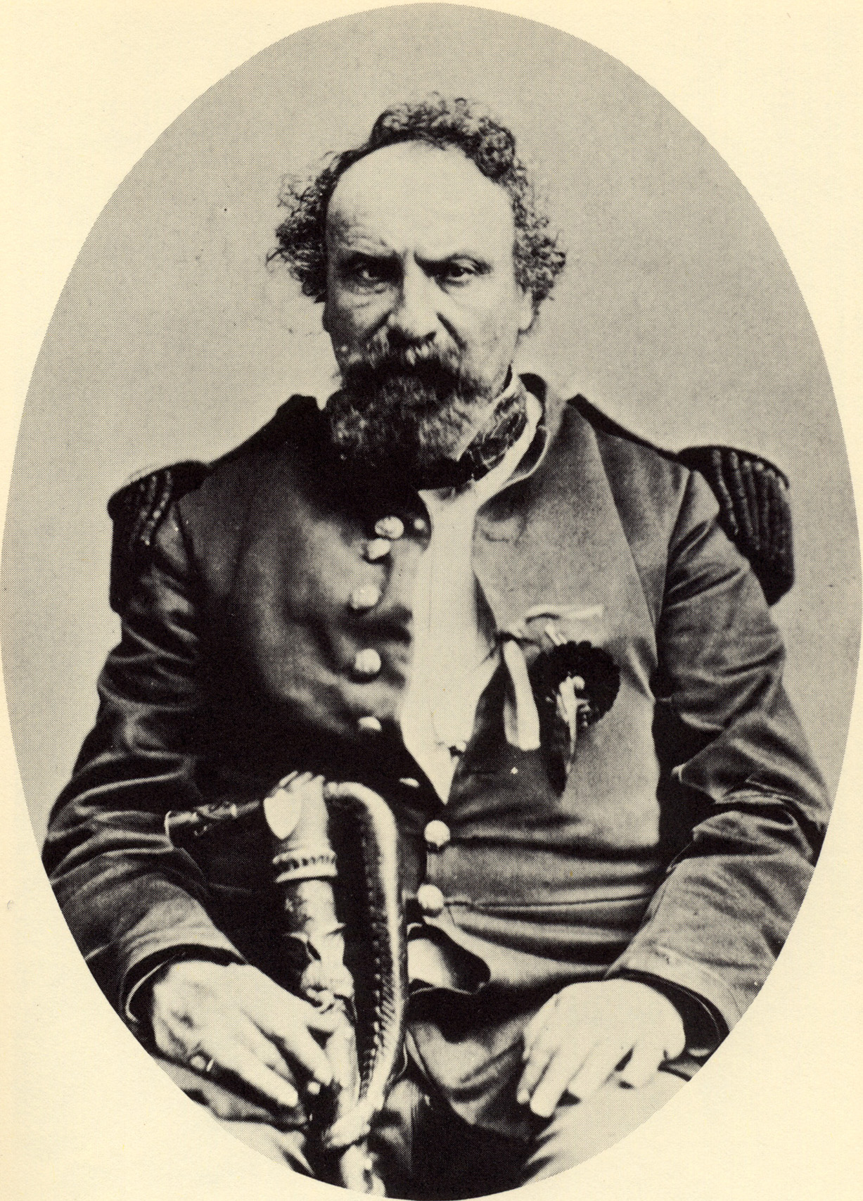 Image of His Imperial Majesty Emperor Norton I, also known as Joshua A Norton.